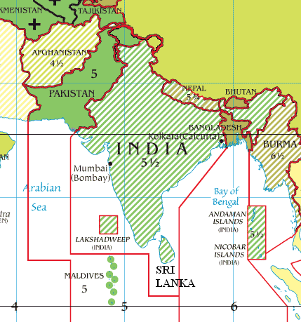 Time zone of India in relation to its neighbouring countries.